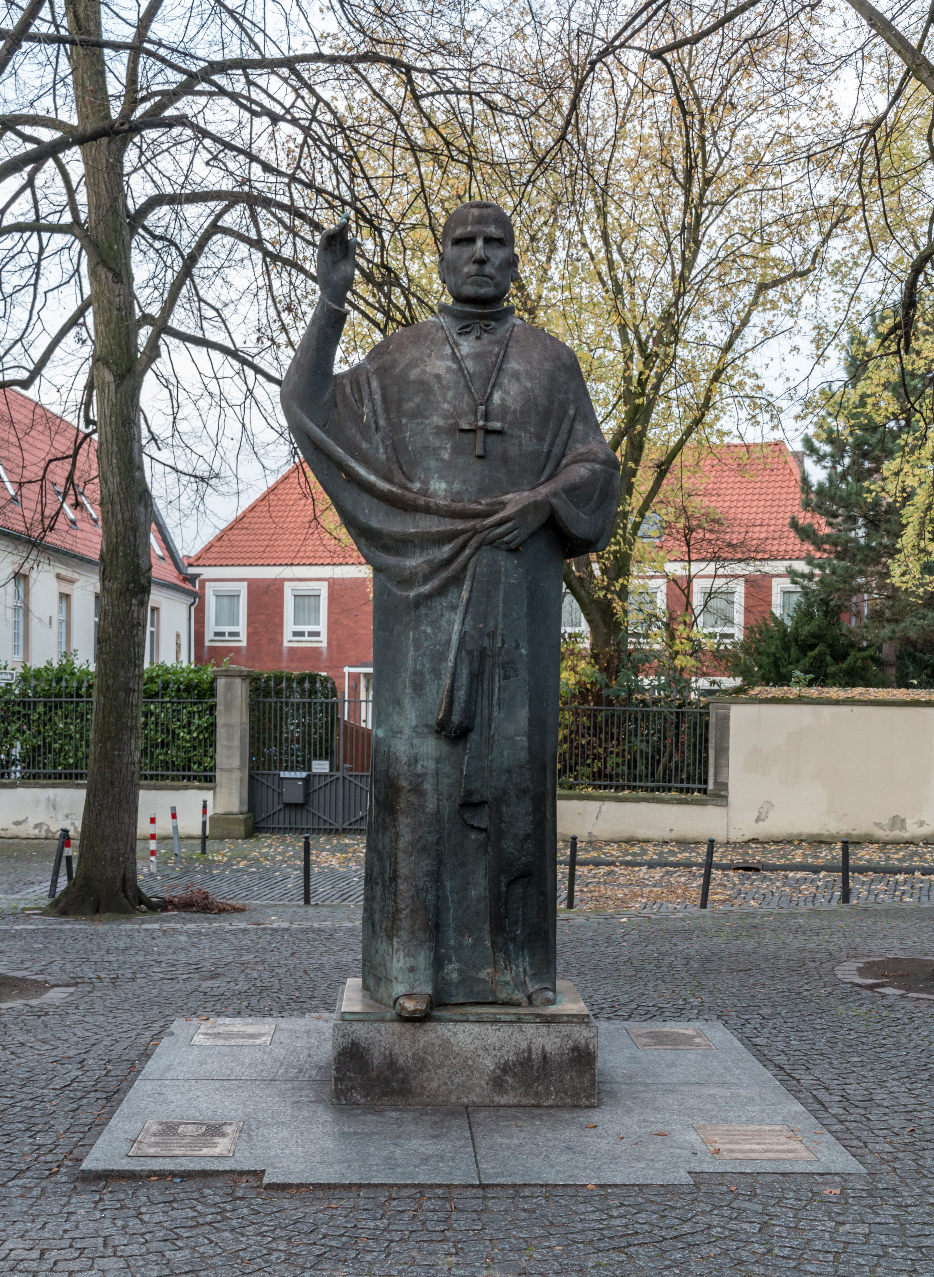 Sculpture “Clemens August Graf von Galen” (Toni Schneider-Manzell, 1978) at St Paul's Cathedral, Münster, North Rhine-Westphalia, Germany Sculpture TitleClemens August Graf von GalenArtistToni Schneider-ManzellDate1978